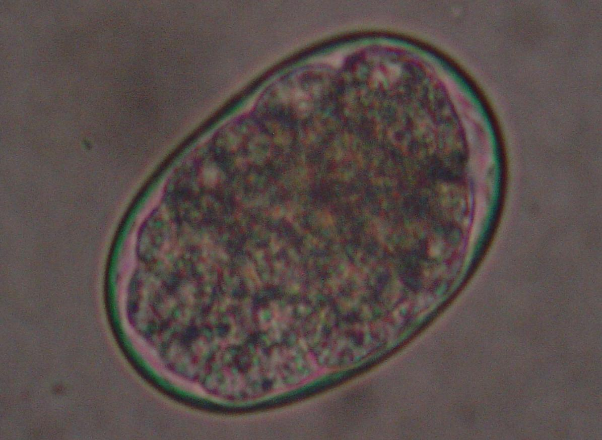 A hookworm (Ancylostoma caninum) egg. Photo taken through a microscope at 40x.